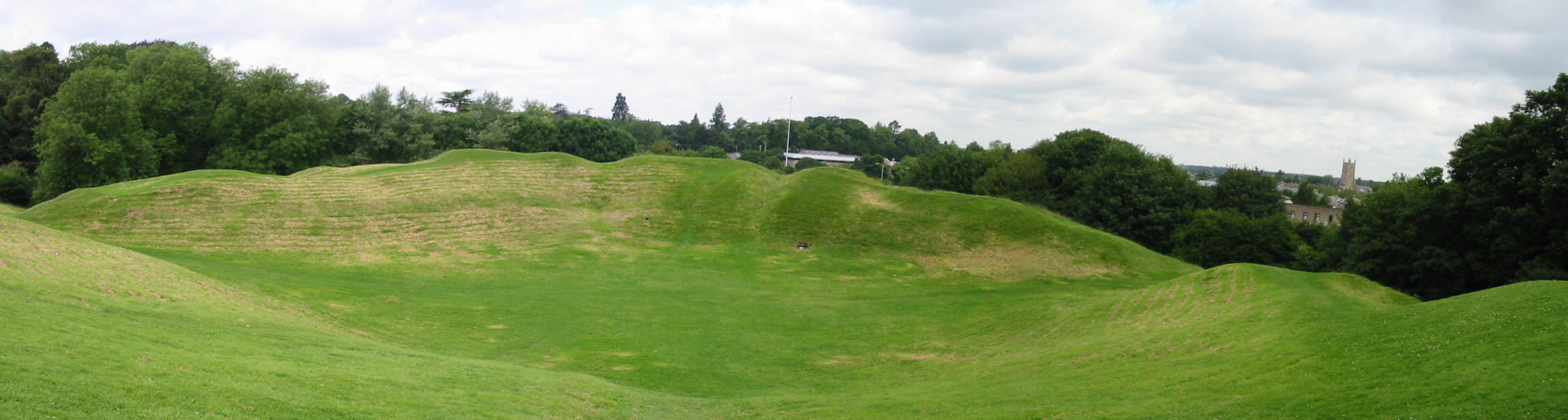 The Roman amphitheatre at Cirencester in Gloucestershire, England.